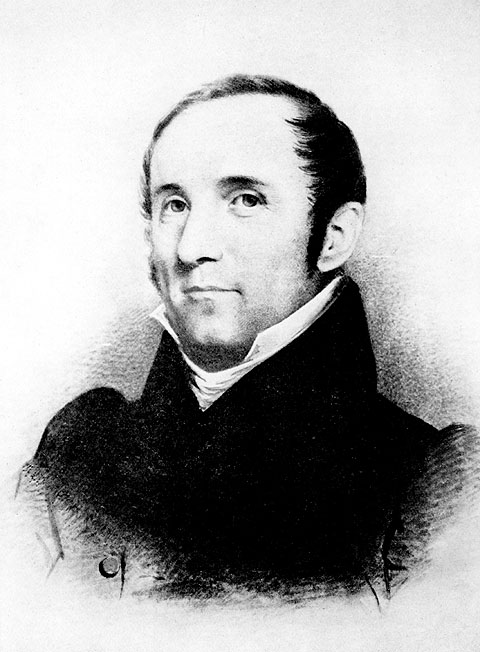 Image of George Bomford, (1780-1848), graduated West Point July 1, 1805, served in the U.S. army Corps of Engineers, eventually promoted Colonel and Chief of Ordnance of the U.S. Army, 1832-1845. He was also a designer and inventor, producing many innovations in the creation of fortifications and the design of coastal artillery. (Cullum’s Register).